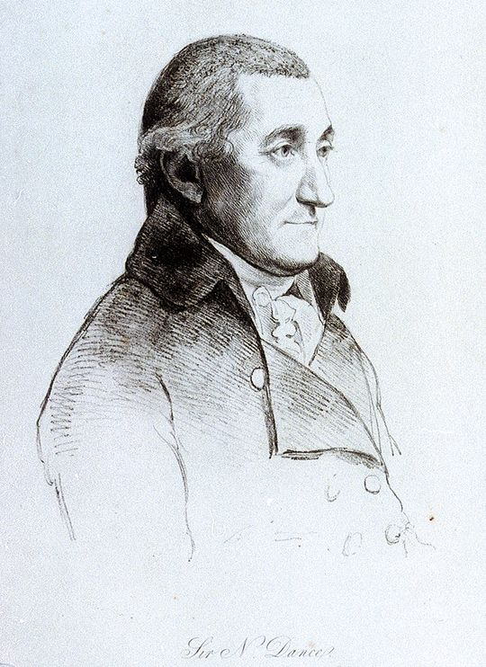 Sir Nathaniel Dance 1748-1827